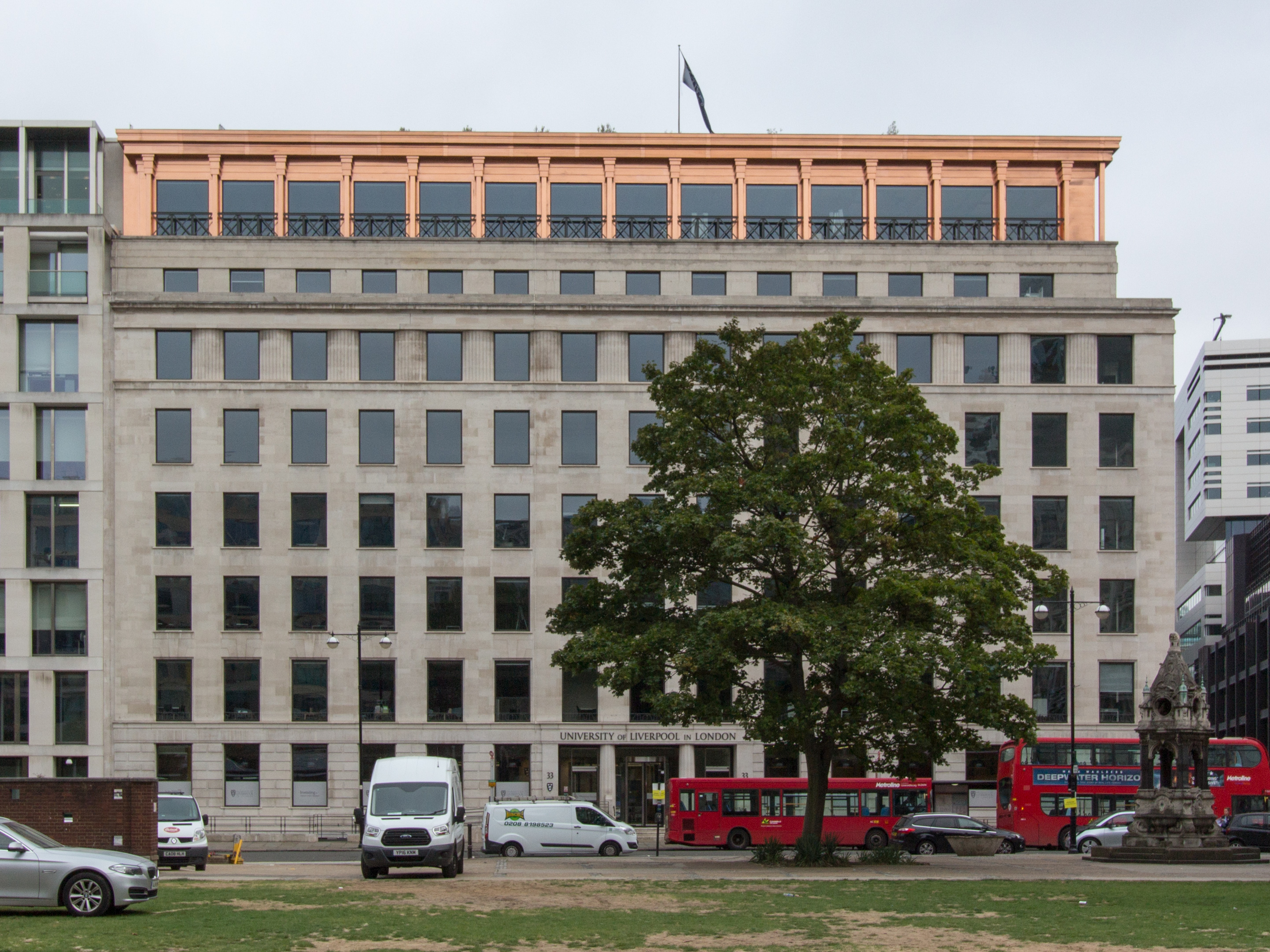 University of Liverpool in London building, nos 33-37 (consec.), Finsbury Square